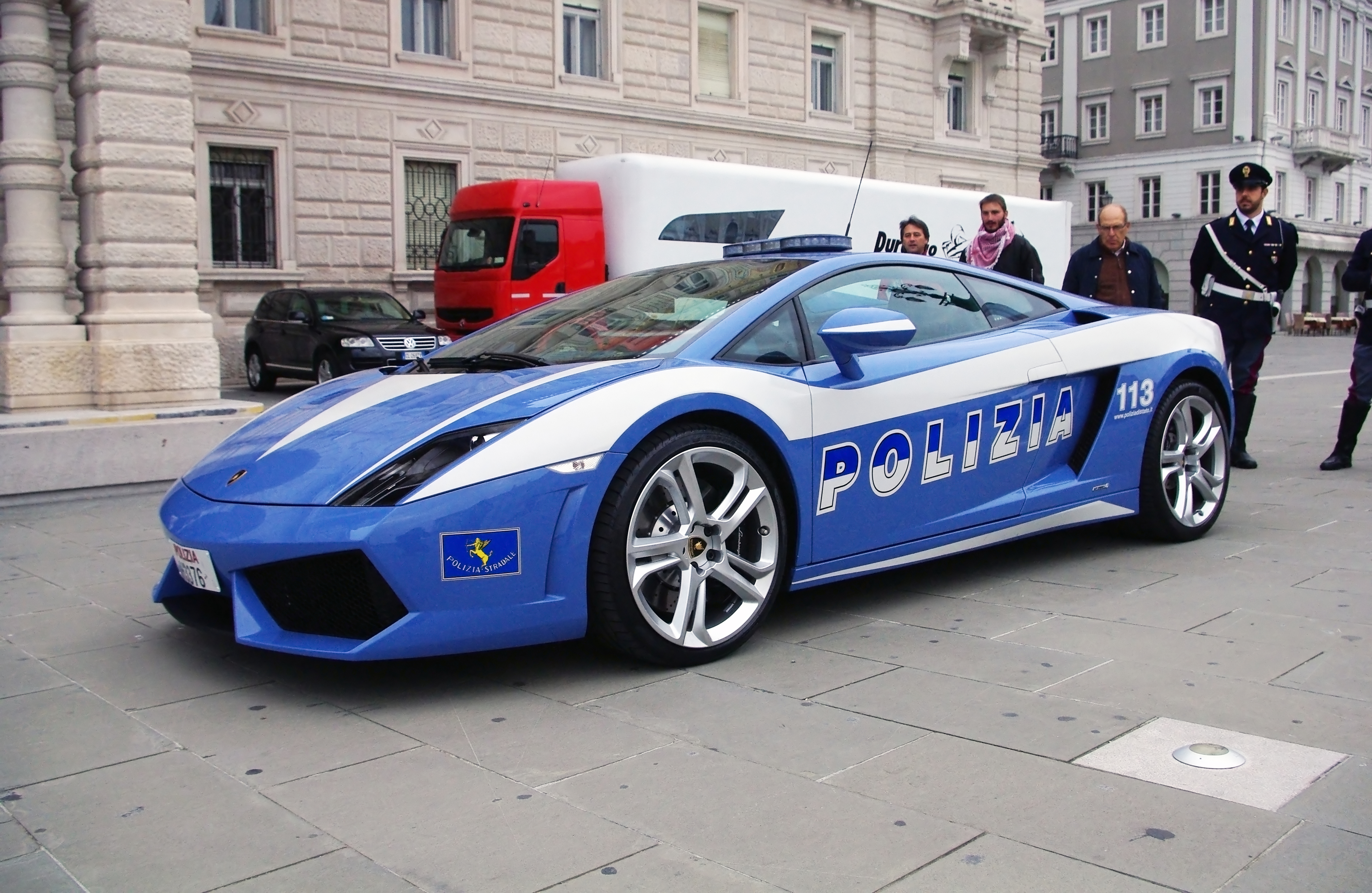 Police Lamborghini Gallardo LP560-4 at Trieste, Italy.